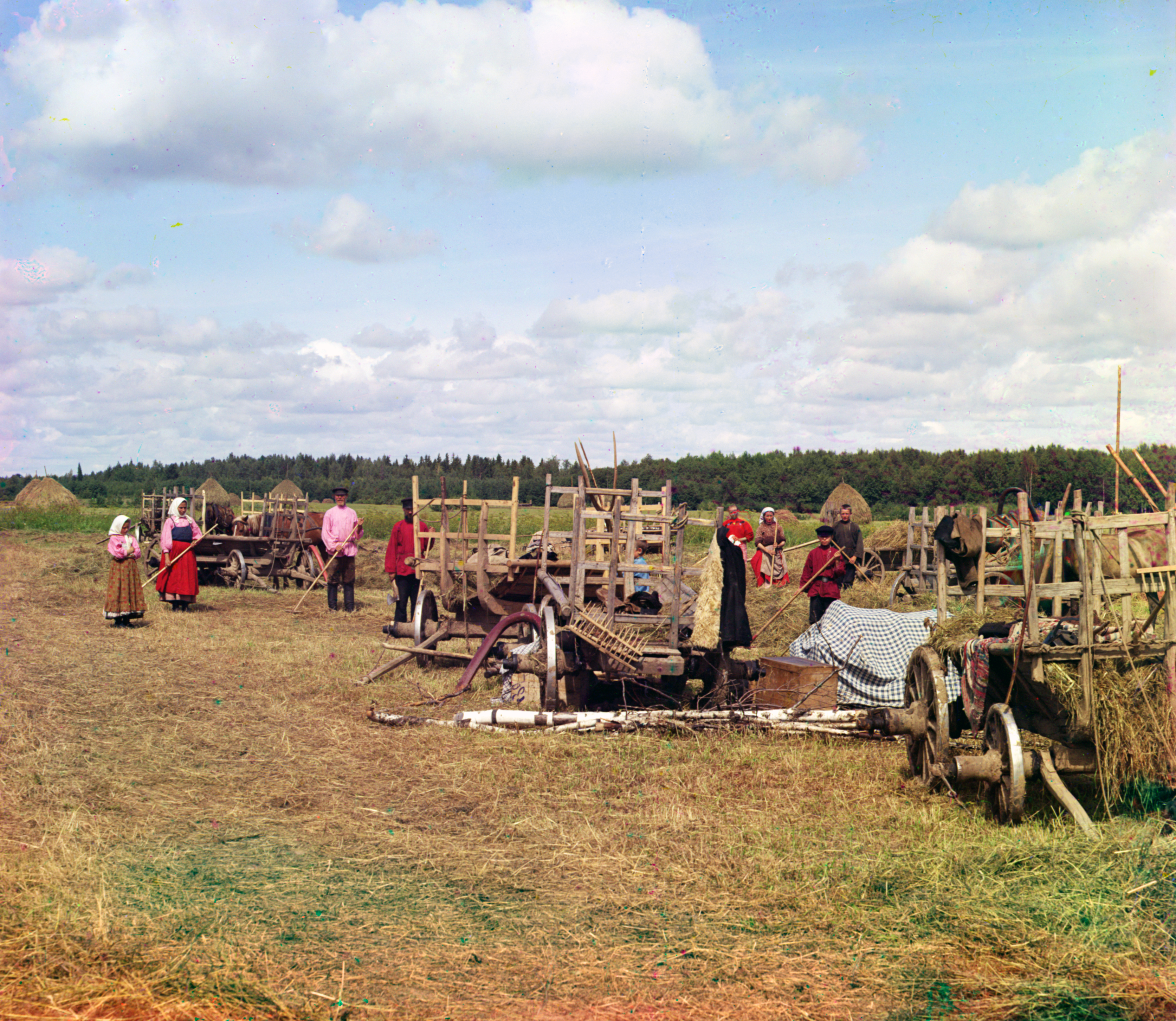 Haying, near rest time. (Russian Empire)